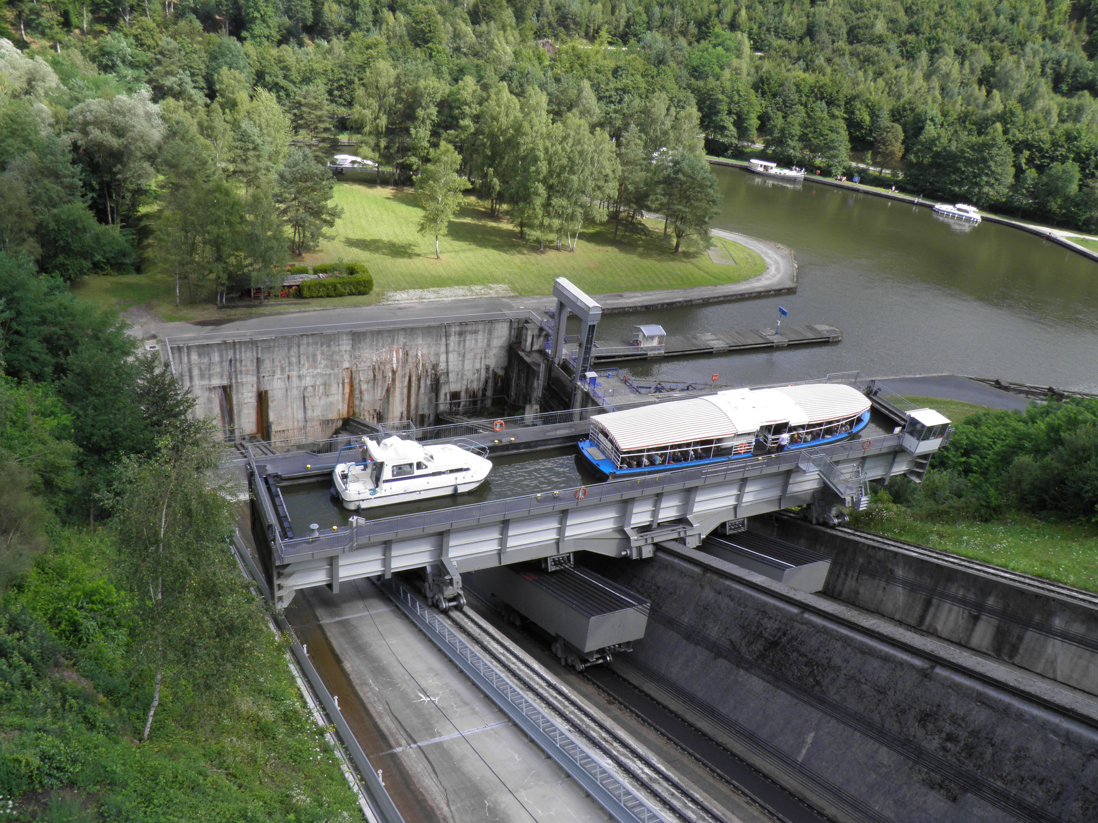 Bac and counter weight of the inclined plane in Saint-Louis (Moselle, France).